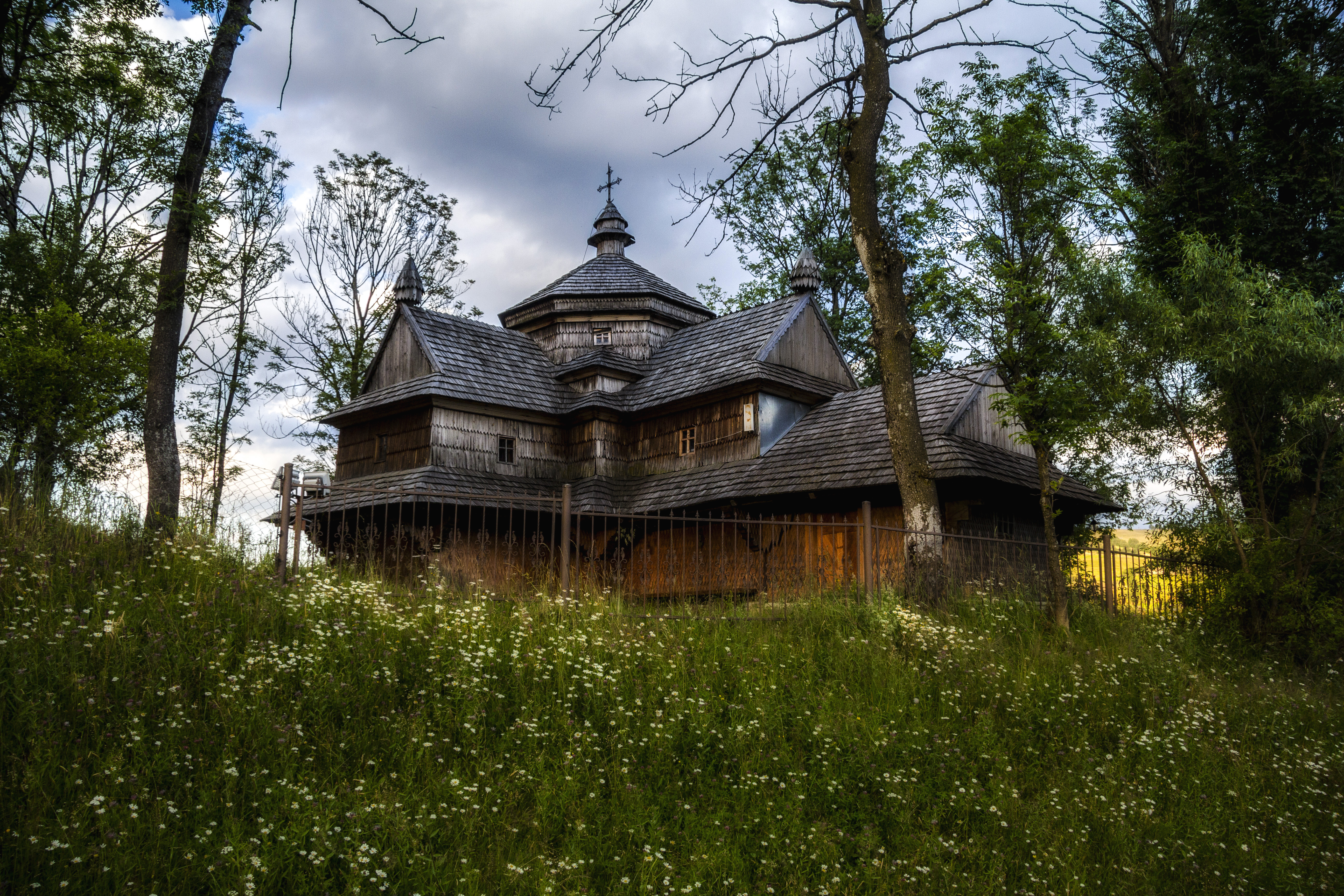 Church of the Ascension, Yasinia, Ukraine